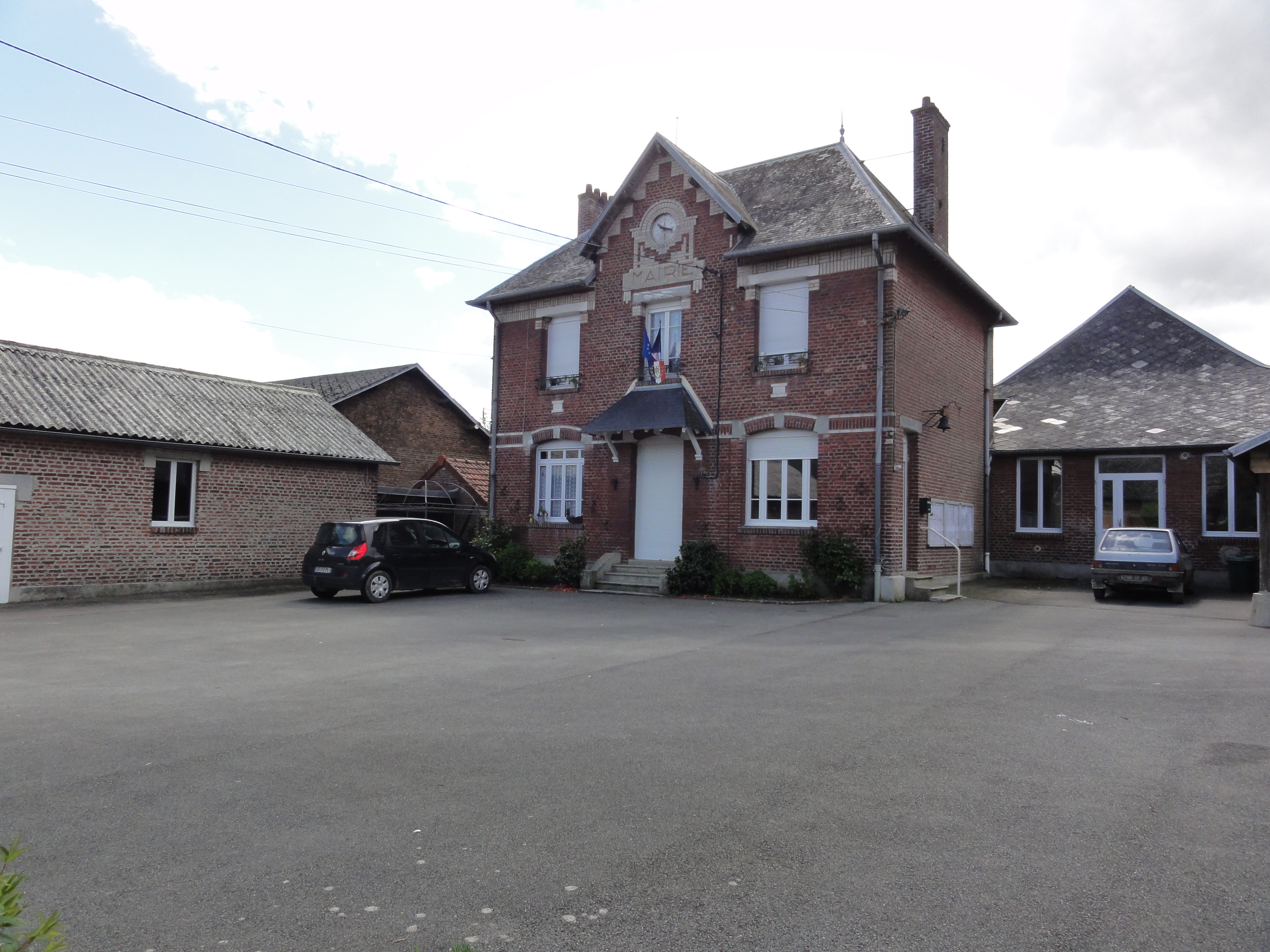 Renansart (Aisne) mairie